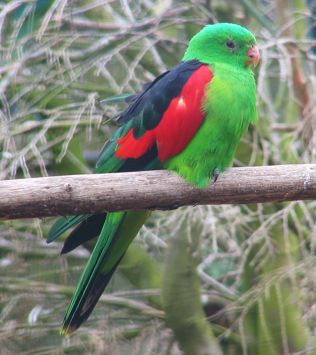 photo of Red-winged Parrot (Aprosmictus erythropterus) the Dunedin Botanic Gardens aviary, New Zealand.